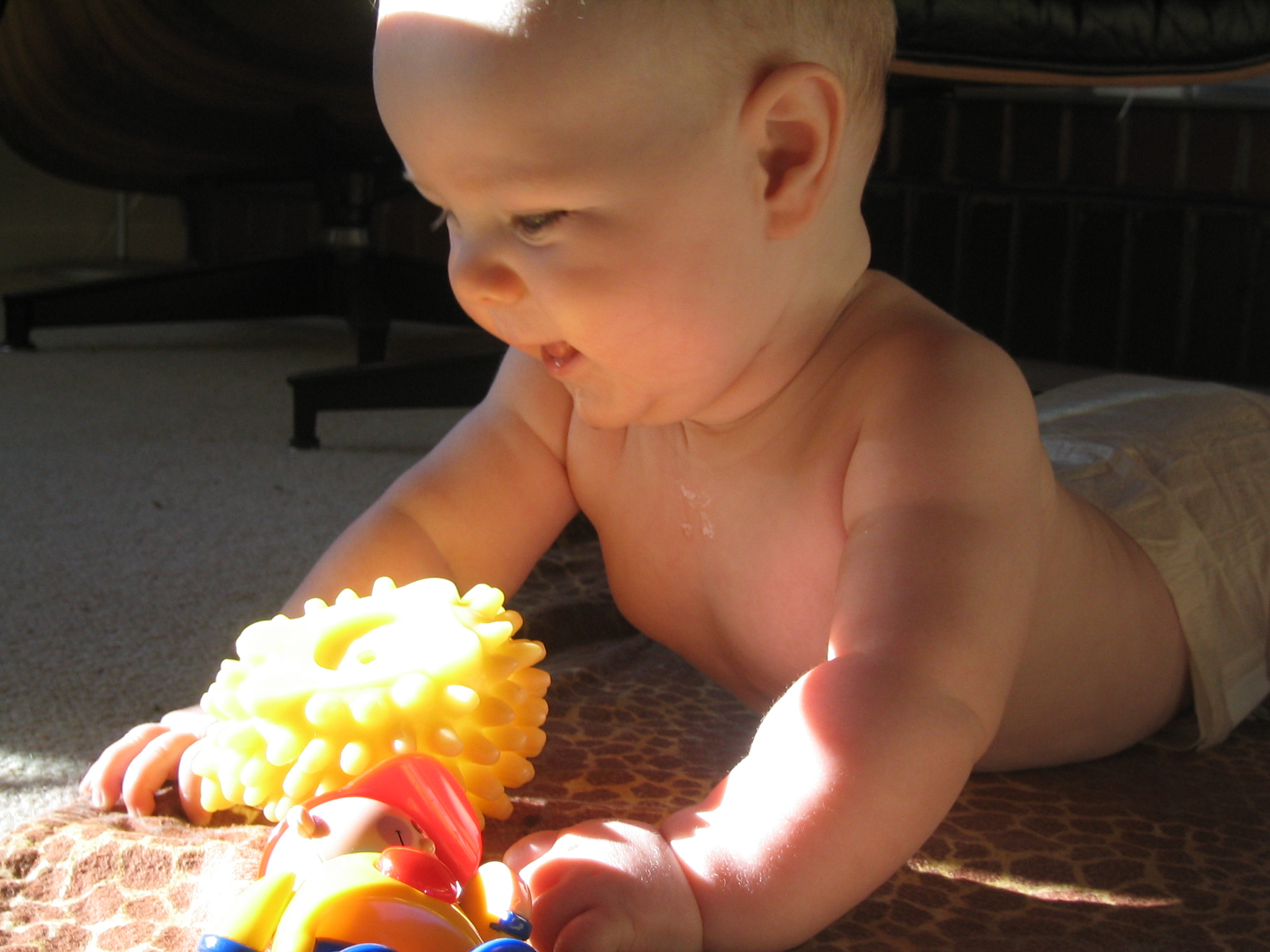 Baby Thomas playing.